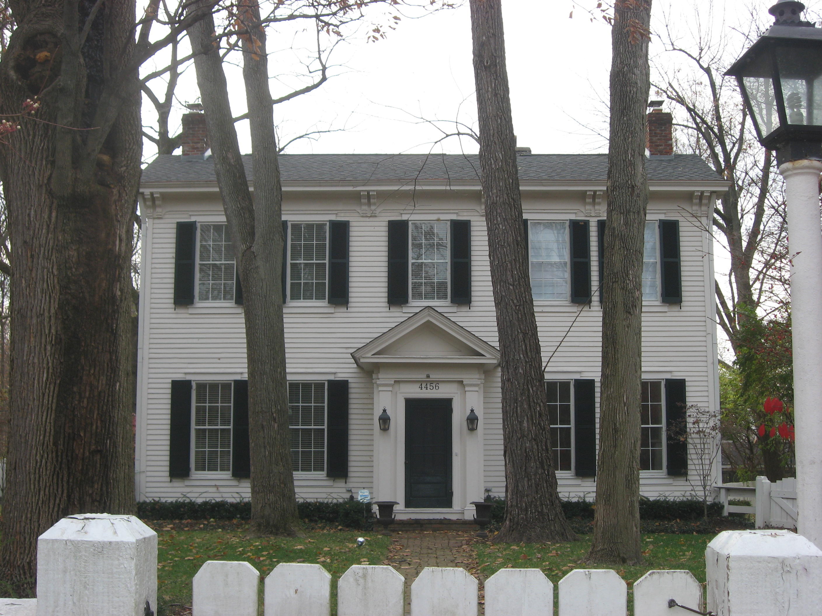 Front of the Johnson-Denny House, located at 4456 N. Park Avenue in Indianapolis, Indiana, United States. Built in 1862, it is listed on the National Register of Historic Places, and it is a part of a Register-listed historic district, the Oliver Johnson's Woods Historic District.